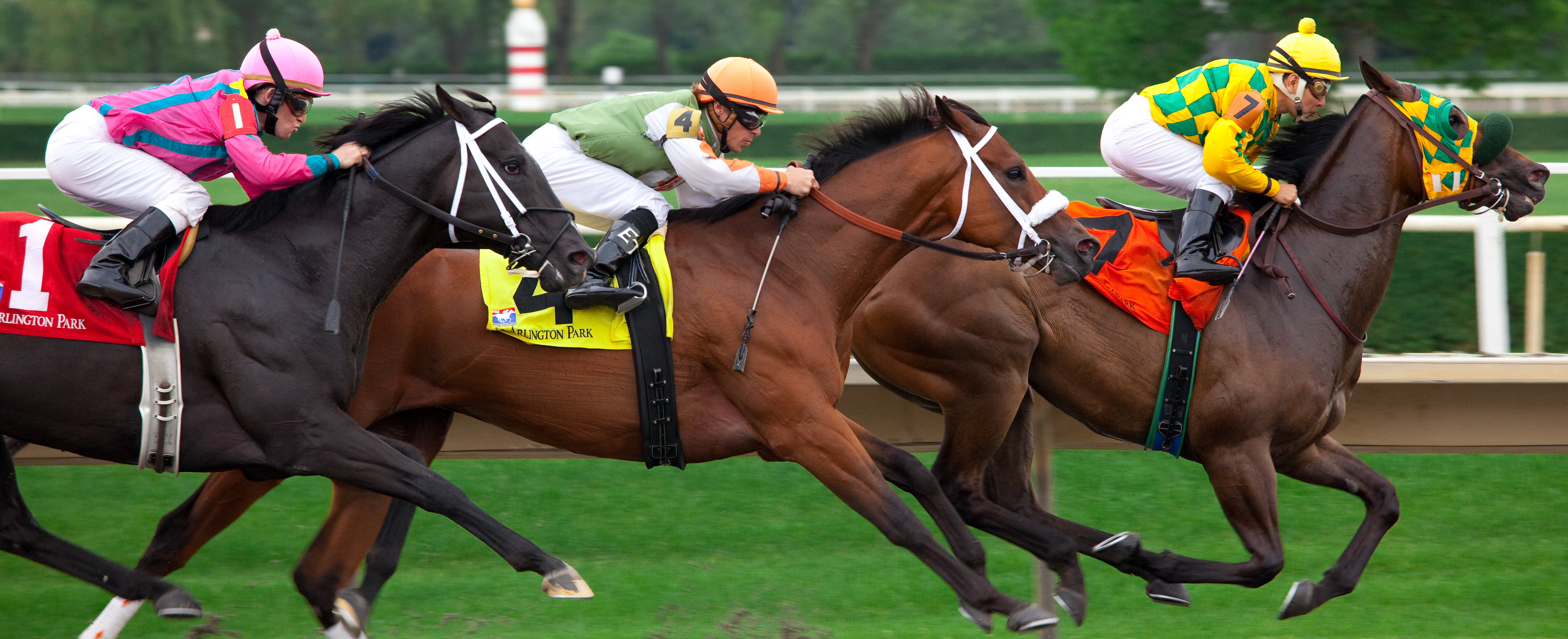 Horse racing at Arlington Park on June 21, 2009. Race 8 (Allowance race for 3-year-olds and up) [1], second place horse Shrewd Operator (far right, jockey Eduardo Perez), Brooks Star (E. Baird) and Indian Silver (far left, jockey James Graham). The race was won at the last minute by Trying Brian (not pictured).